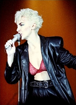 Annie Lennox, Eurythmics, Drammenshallen, Norway